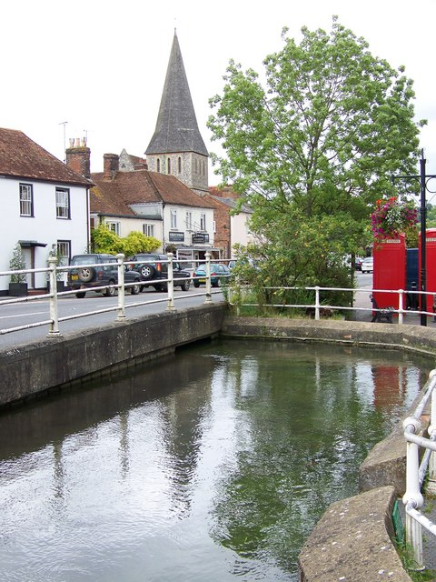 High Street, Stockbridge The River Test flows under the High Street in several places.